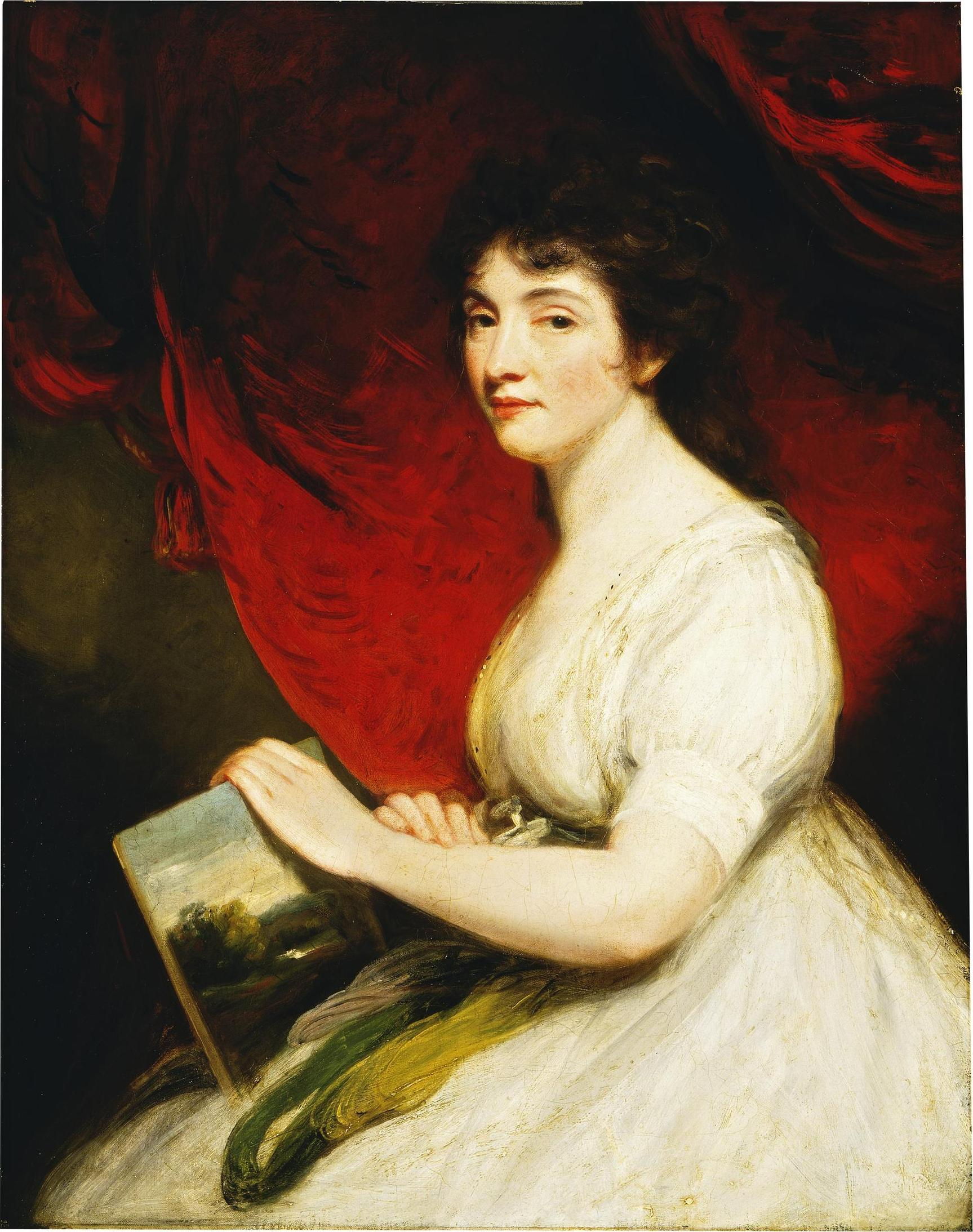 Miss Mary Linwood Object Type - Before the 19th century, a typical portrait would be of a wealthy landowner, merchant or nobleman (and their families). After about 1800 portraits of people from all ranks of society began to be commissioned. Pictures of the rich and famous started to include artists, politicians, literary figures and scientists. People - Mary Linwood's copies of old master paintings in crewel wool (named from the crewel or worsted wool used), in which the brush strokes were rendered by stitches, achieved great fame from the time of her first London exhibition in 1787. On one occasion her copy of a painting by the Italian artist Salvator Rosa (1615-1673) was sold for more than the original. Her exhibition in Leicester Square, London, was the first art show to be illuminated by gaslight. The first commissioned work of the landscape artist John Constable (1776-1837) was to paint the background details in one of her works. Linwood's portrait of Napoleon, said to have been done from life, was bequeathed to the V&A at the same time as this picture. So successful was Mary Linwood that she was able to commission John Hoppner (1758-1810) to paint her portrait. By this time he was principal painter to the Prince of Wales (later George IV) and the most important portraitist in England.